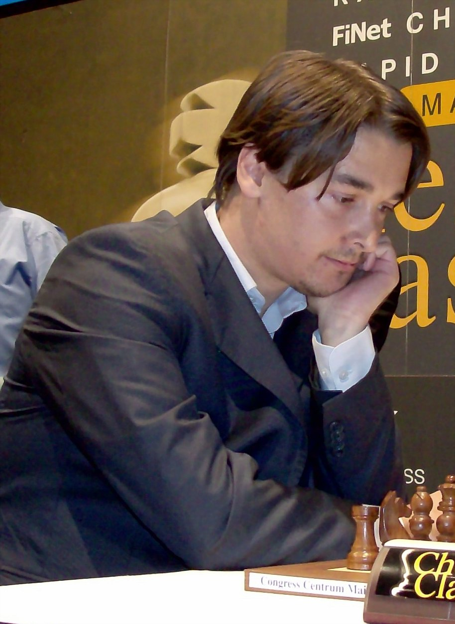 Alexander Morozevich at the Chess Classics 2008